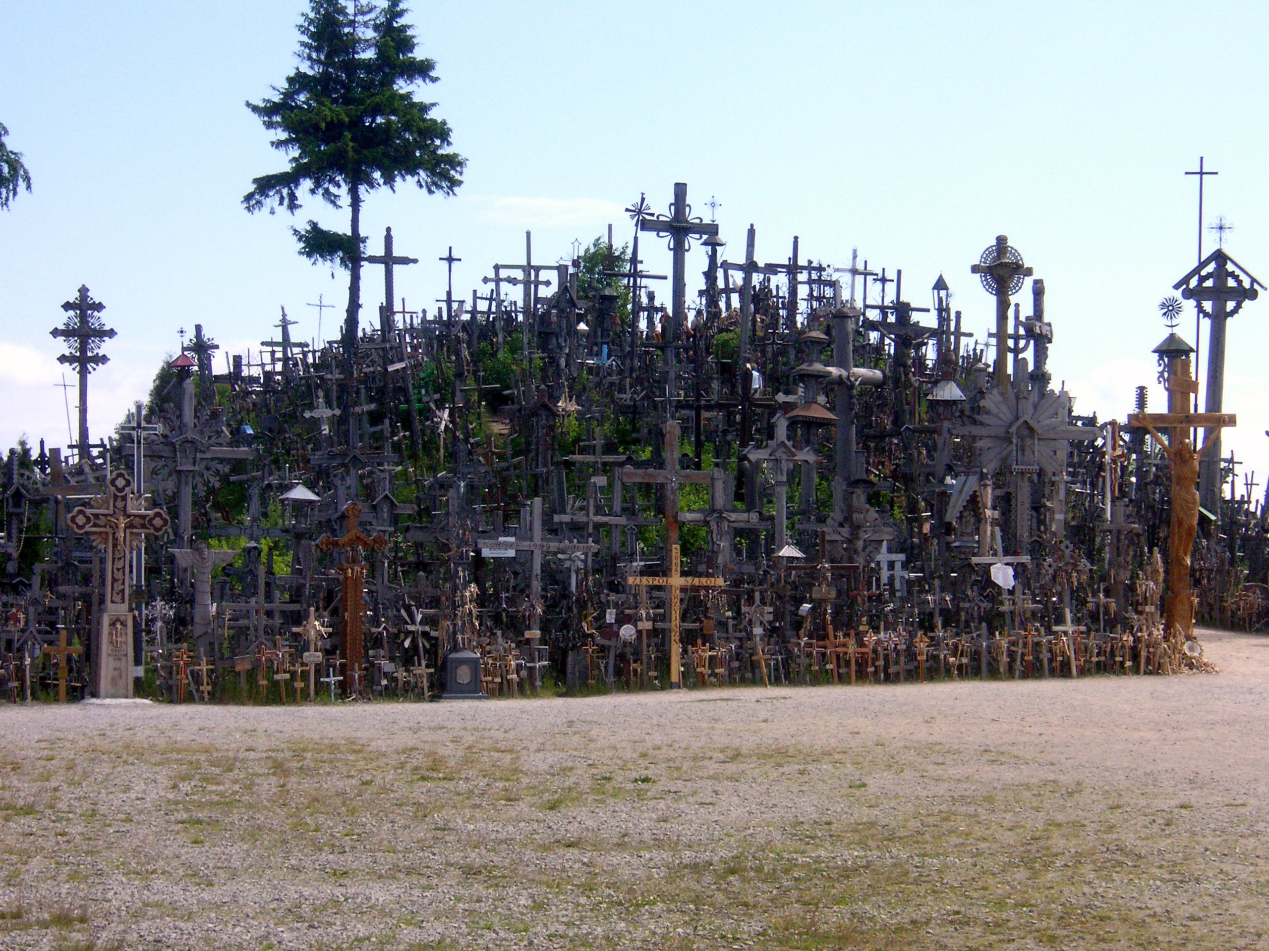 Hill of Crosses near Šiauliai, Lithuania